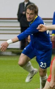 Aleksandr Kuchma in action for Kazakhstan national football team